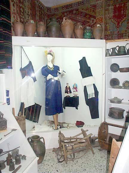 Traditional local costume, image from the Nature and Folklore Museum, Loutra, Almopia, Central Macedonia, Greece